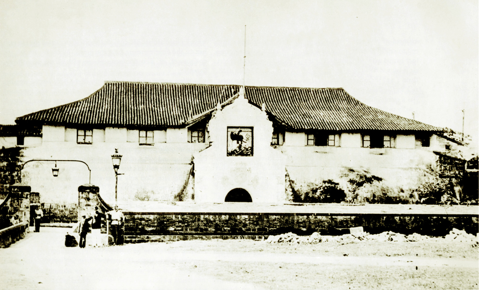 The main gateway to Fort Santiago, Manila in 1880. The building was destroyed during the July 1880 earthquake that affected Luzon Island.